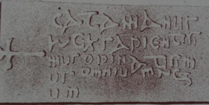 Cadfan gravestone, Llangadwaladr Church, Anglesey, Wales Rhion Pritchard